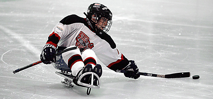 sled hockey player reaching for the puck